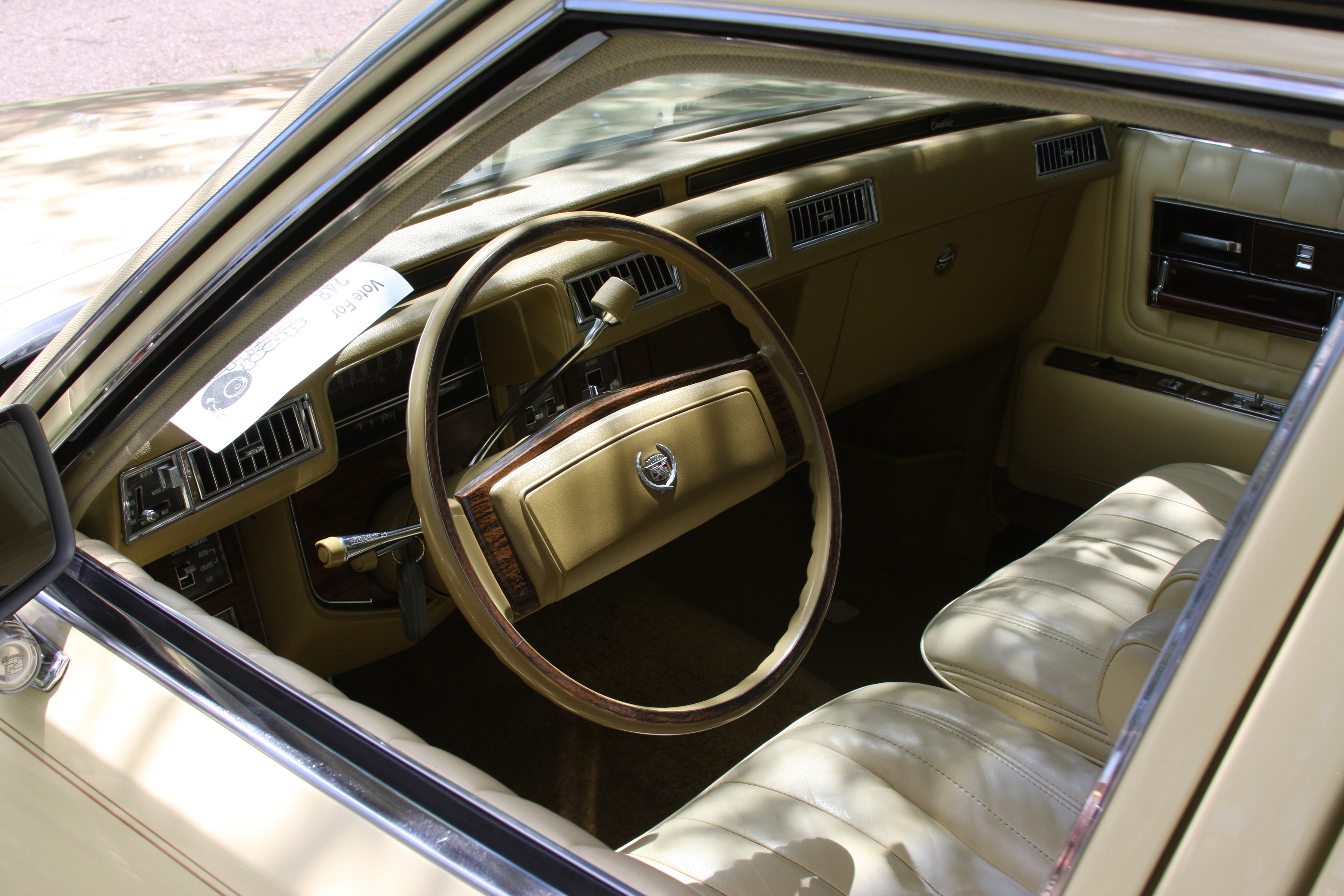 Rare to see a Cadillac Seville these days never mind one so nice. Attractive colour scheme too.